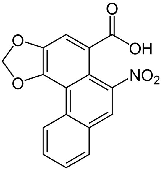 Picture from English Wikipedia.